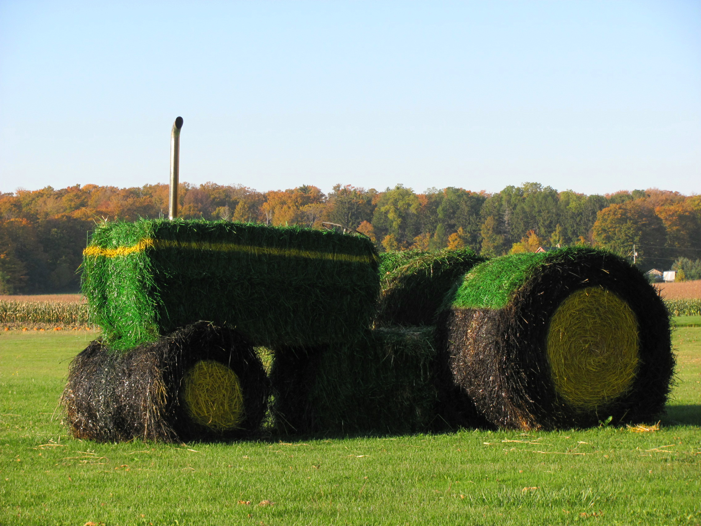 Coloured straw bale sculpture resembling a John Deere tractor; Ontario, Canada